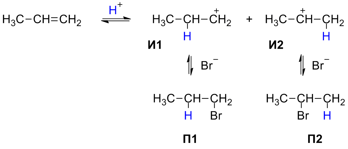 Markovnikov's rule